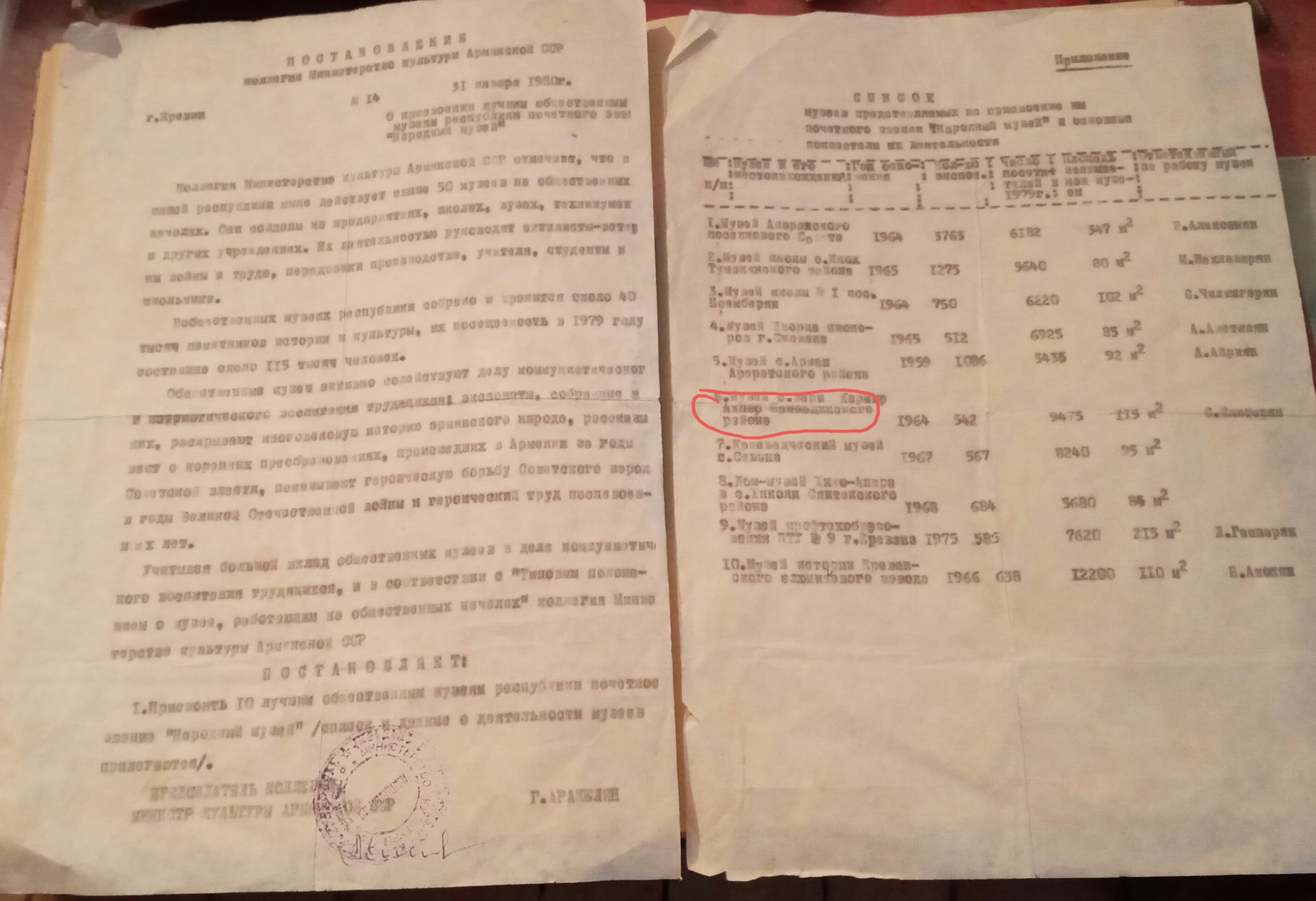 an exhibit in the museum